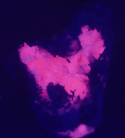 Fluorescency of rhodochrosite (from Cassagna, Liguria, Italia). Specimen size 5 x 7 cm; UV excited at 365 nm --Antonio A. 20:26, Set 28, 2004 (UTC)